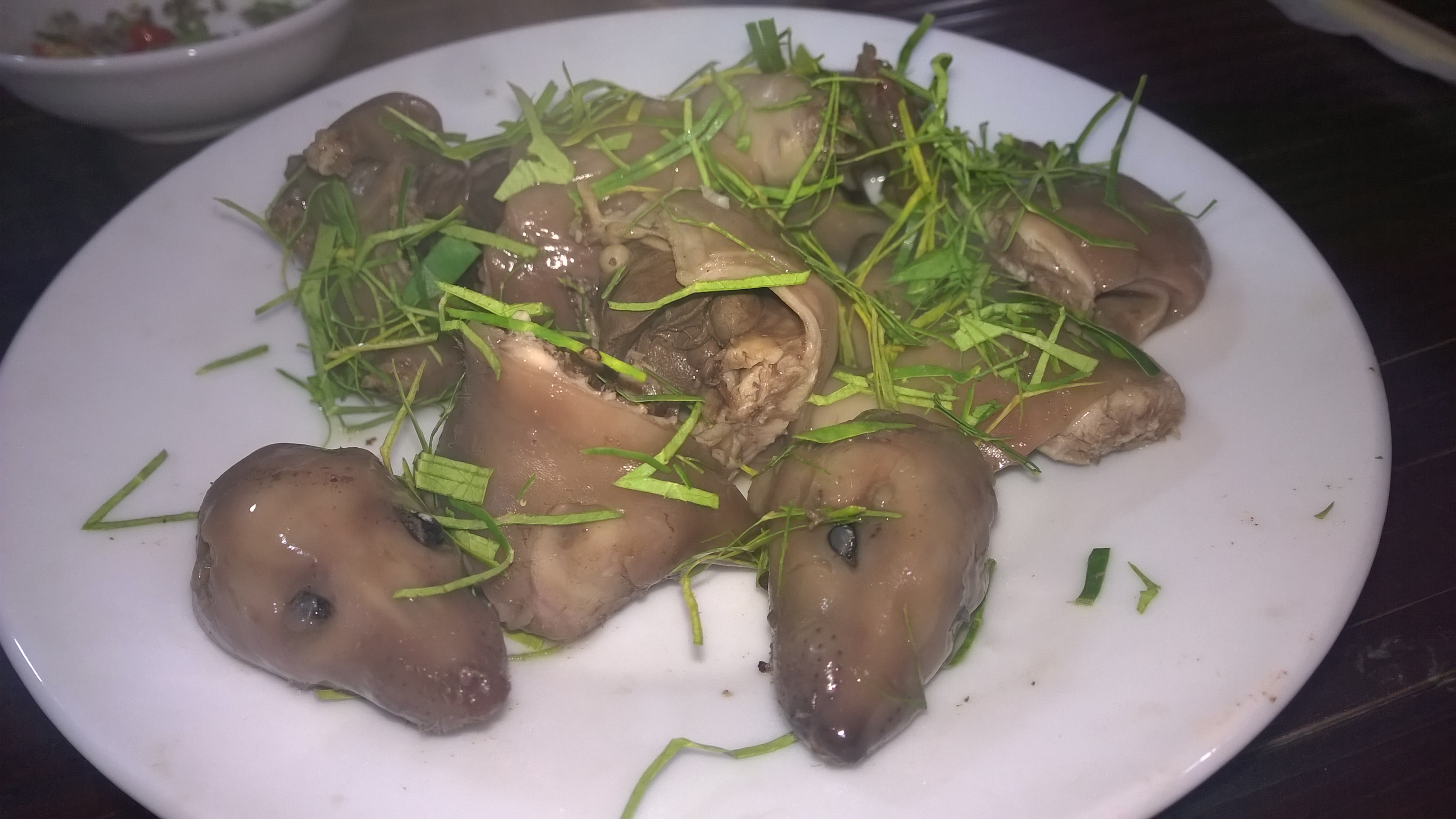 A Vietnamese dish based on field mice.